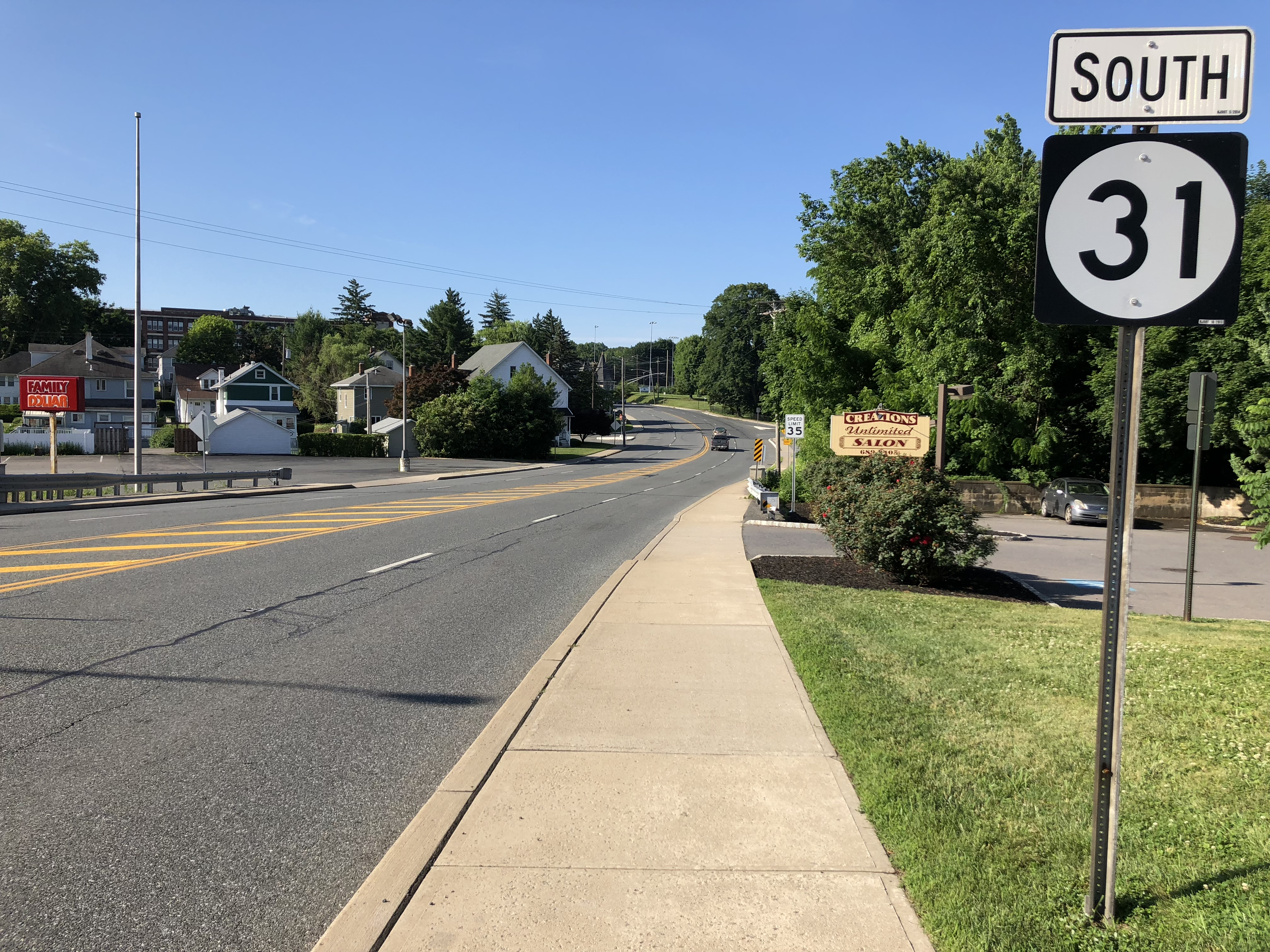 View south along New Jersey State Route 31 just south of New Jersey State Route 57 (Washington Avenue) in Washington, Warren County, New Jersey